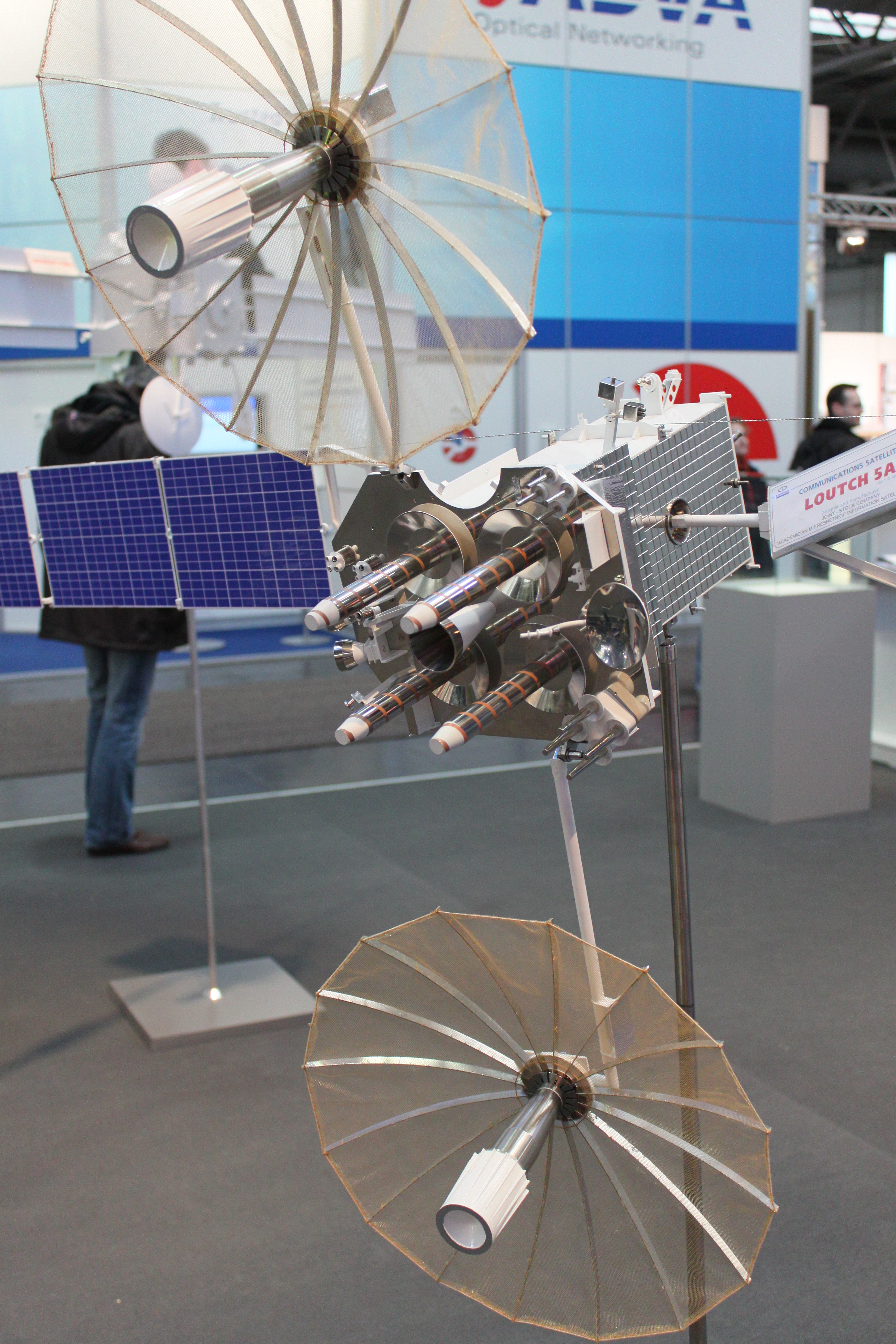 The model of the future Russian Data Relay satellite Luch-5a on CeBIT 2011